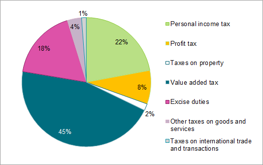 Tax revenue of the national budget of Lithuania (including municipal budgets) by type of tax. Year 2013 Source: Ministry of Finance